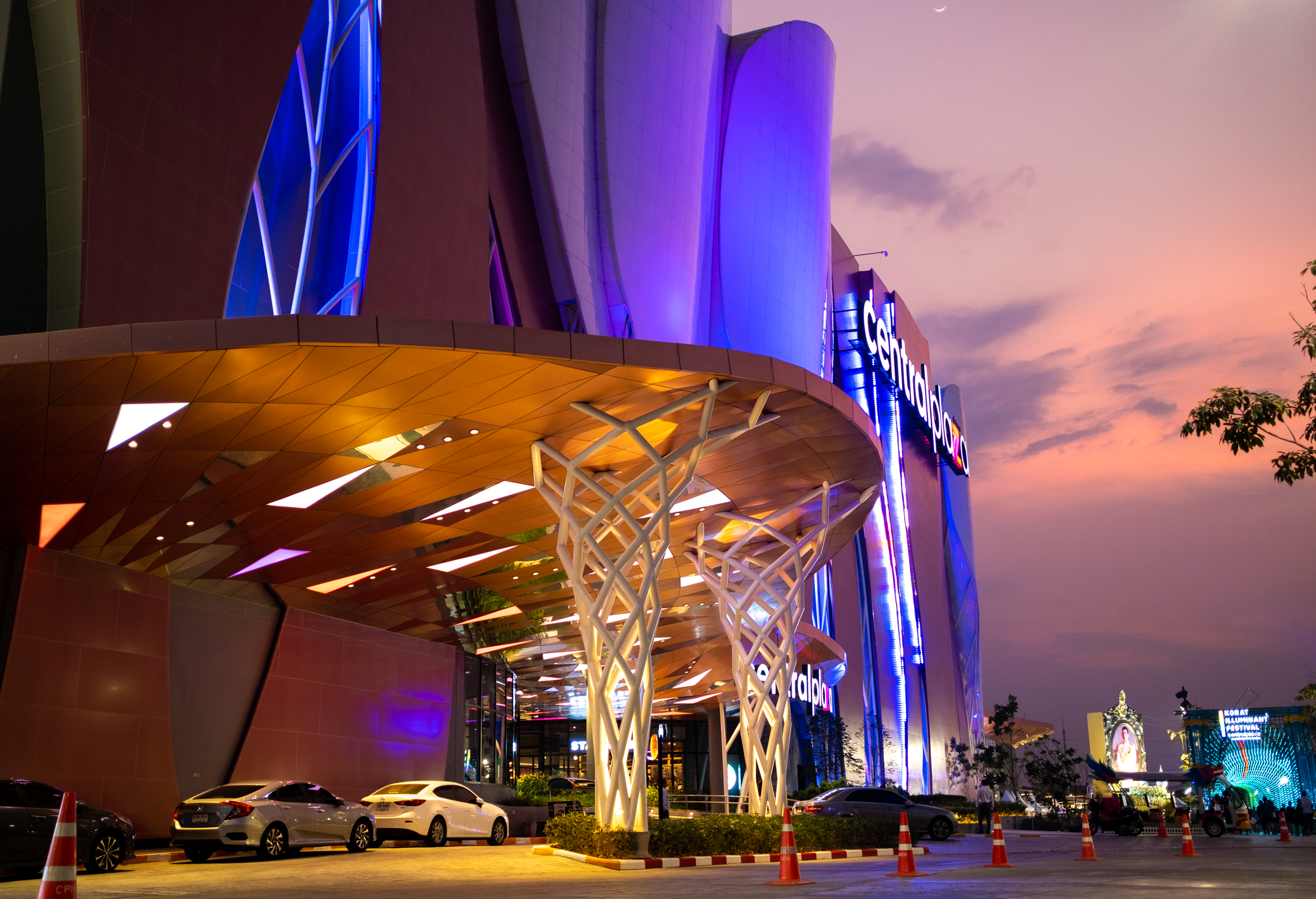 The main entrance of the Central Mall of Korat at sunset